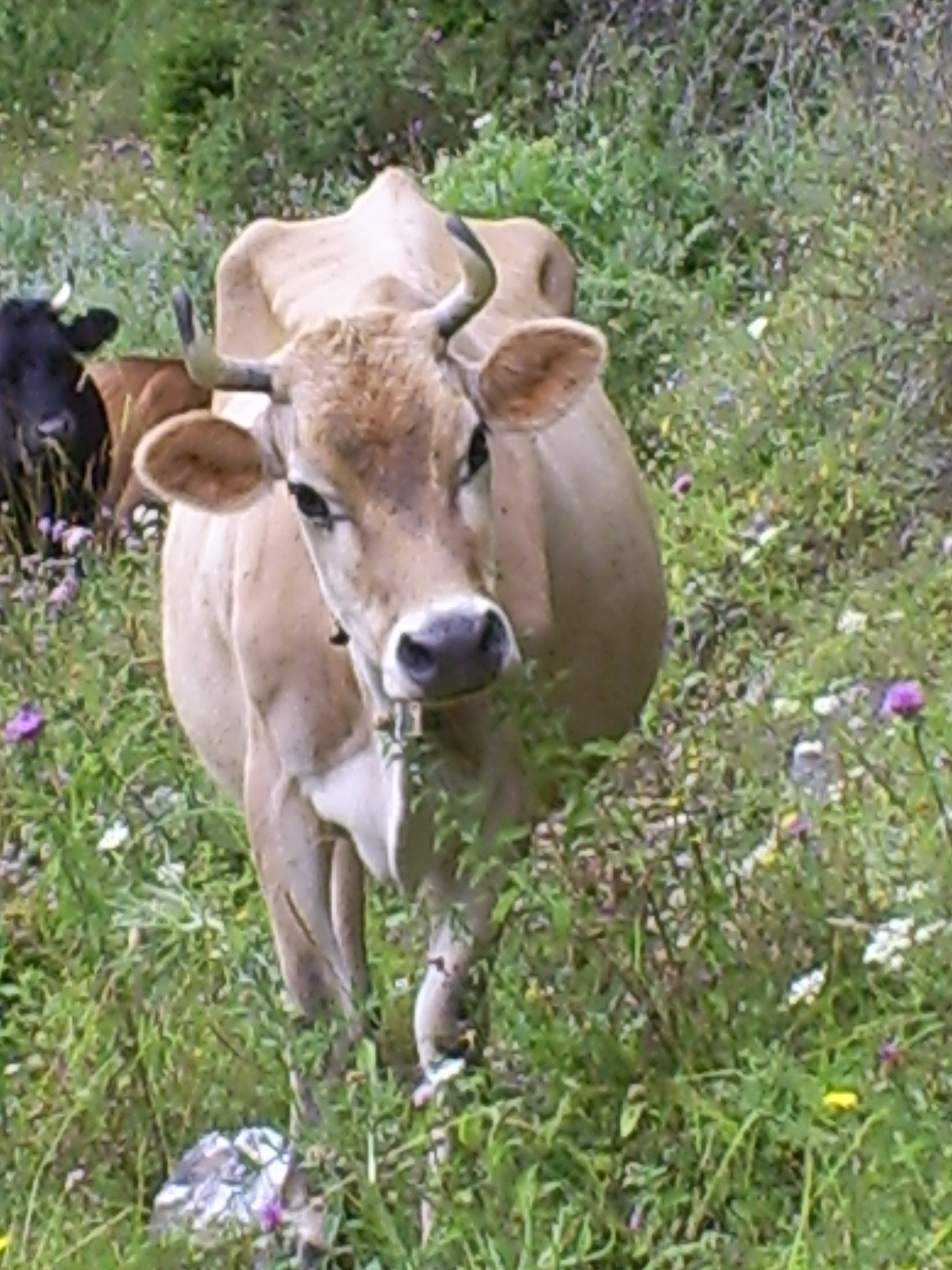 Solishta